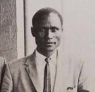 Jomo Kenyatta Apa Pant and Acheing Oneko